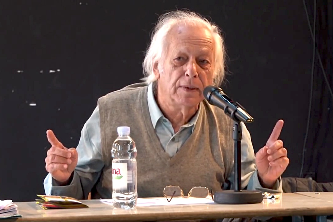 Egyptian economist Samir Amin on the the current Eurocrisis at this years Subversive Festival in Zagreb.